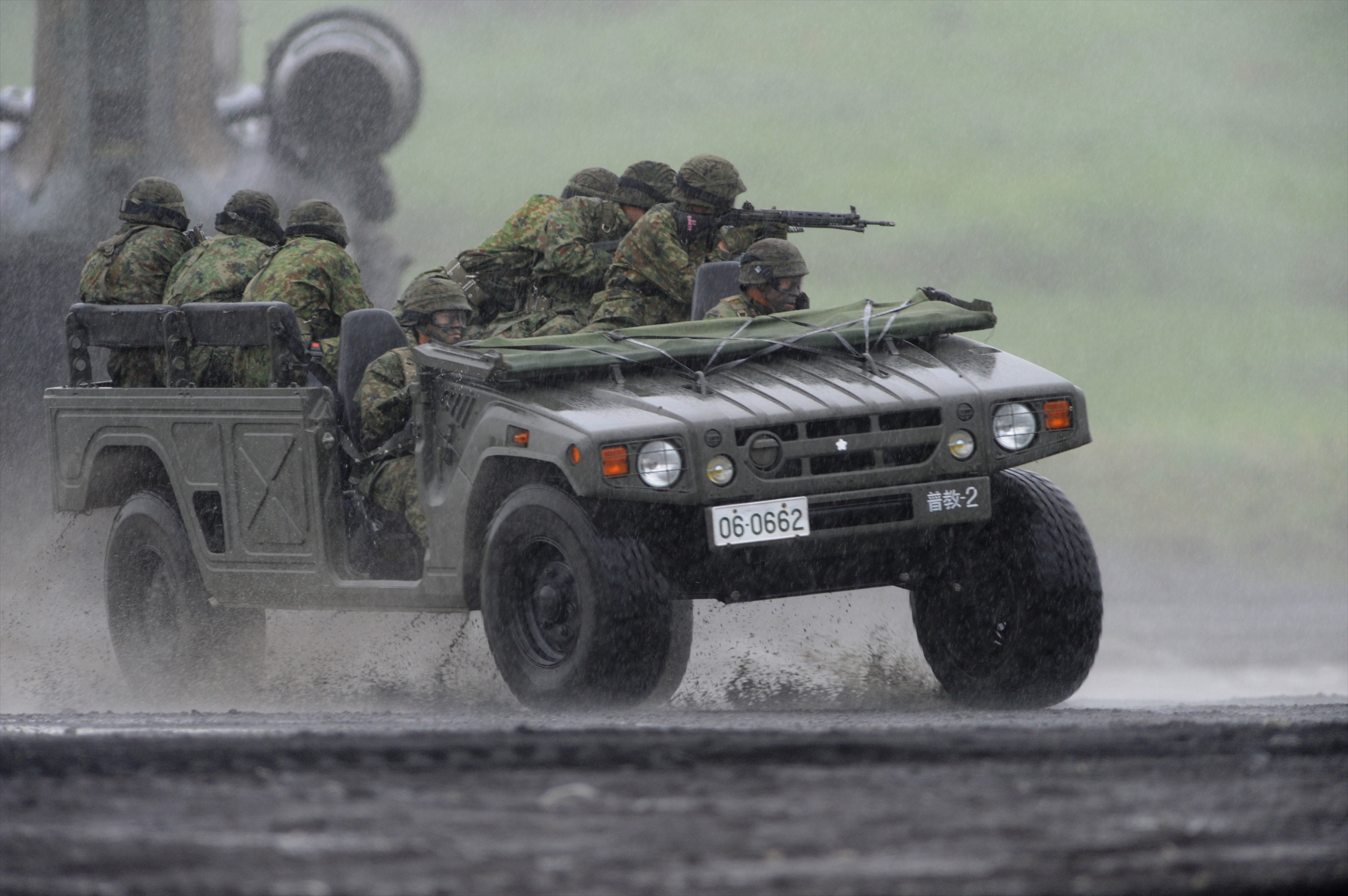 Title 高機動車 20.8.24 富士総合火力演習・大雨の中のヘリボン_R.jpg Album 装備 高機動車（富士総合火力演習）